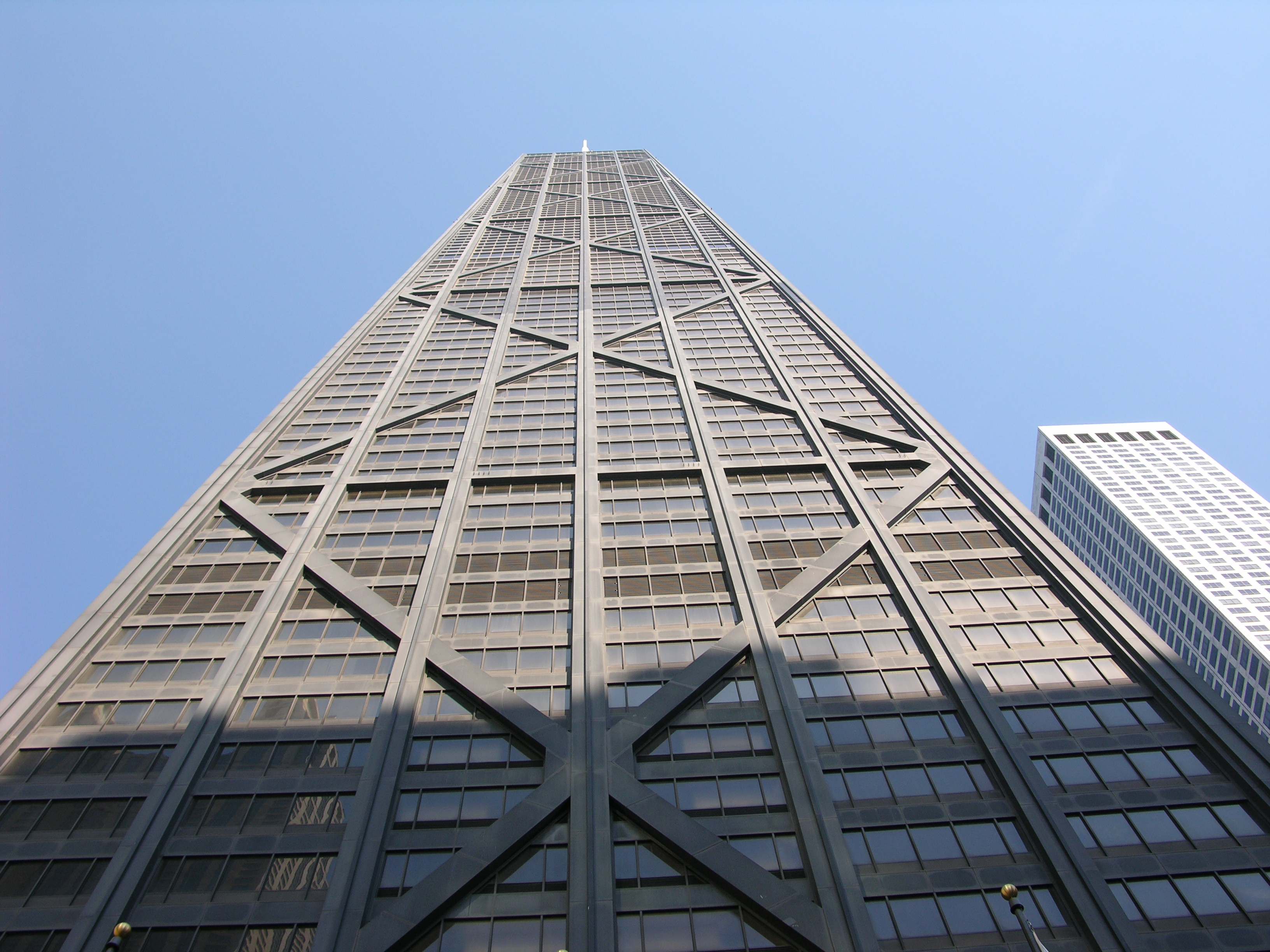 Author: Sergio Perez, September 2004. Camera Nikon Coolpix 8 MPixel